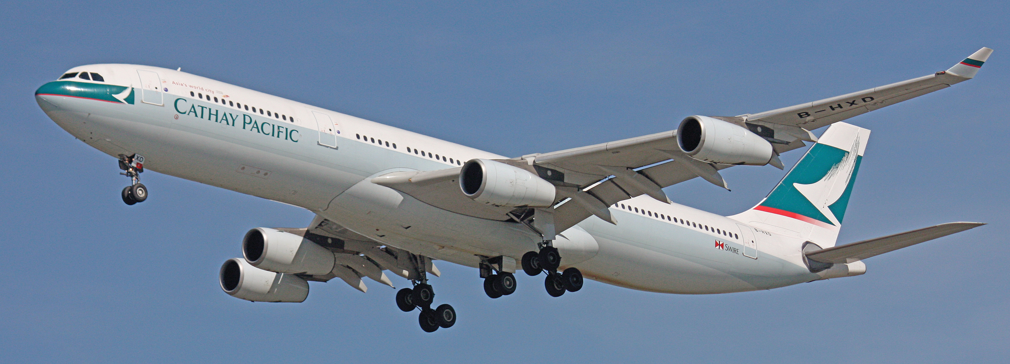 A Cathay Pacific Airbus A340-313X landing at Vancouver International Airport